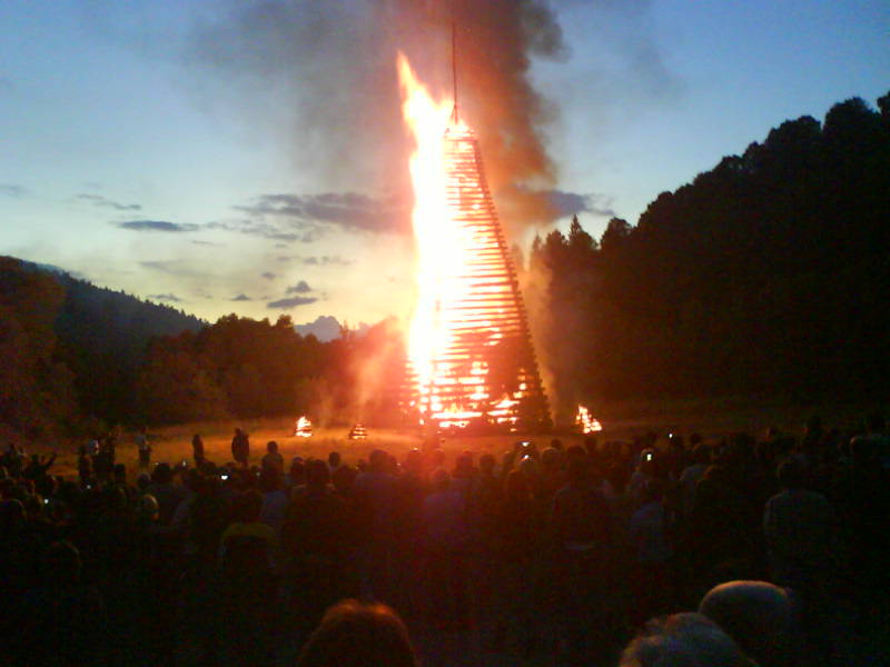 Turček - highest locus bonfire (Guinness record)